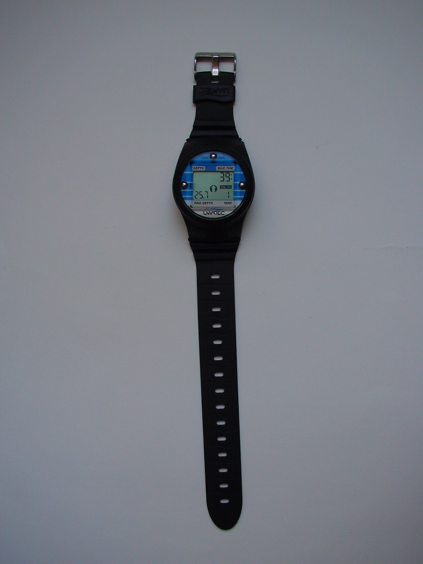 Digital electronic dive timer and depth gauge